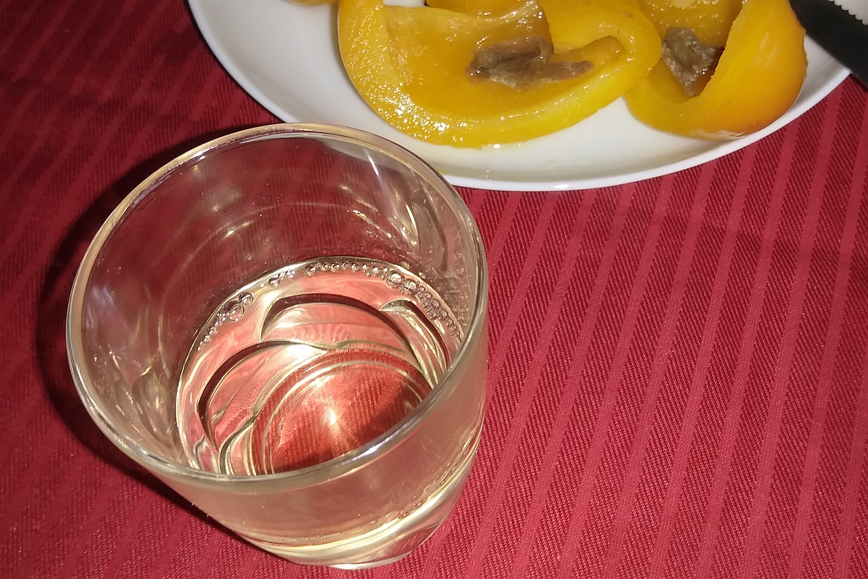 Trebbiano-Passerina Marche IGT (white Italian wine from Marche)